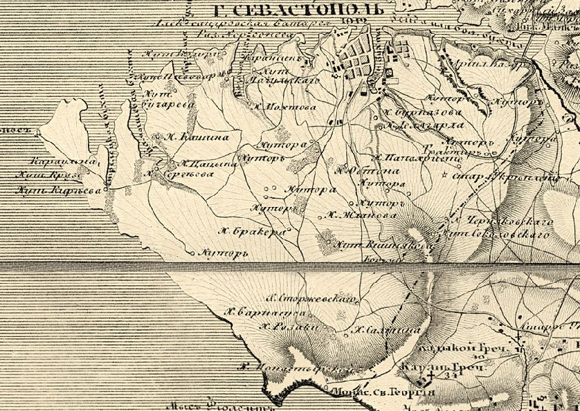 Sevastopol military governorship. 1805 - 1864